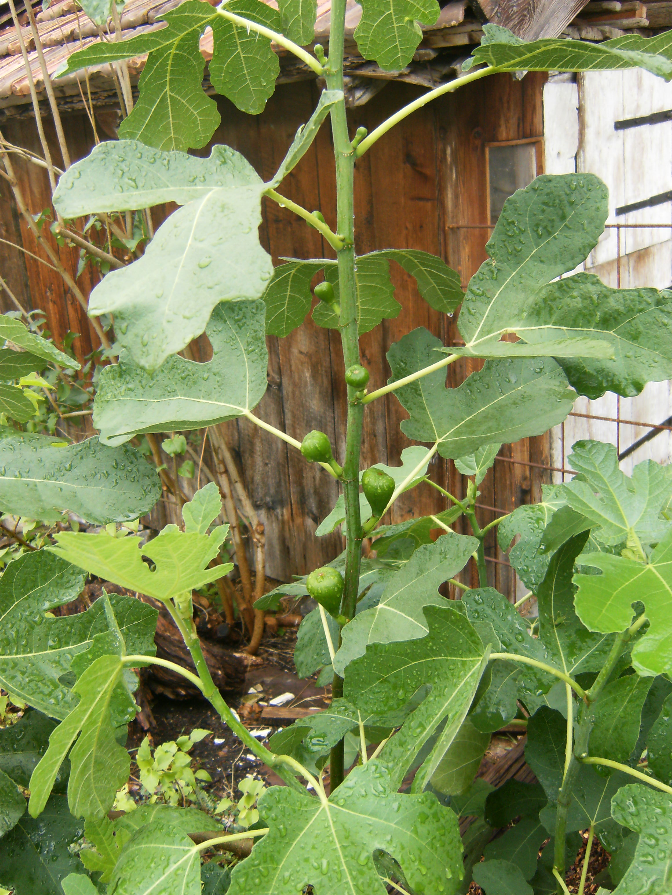 Wangs SG, Switzerland